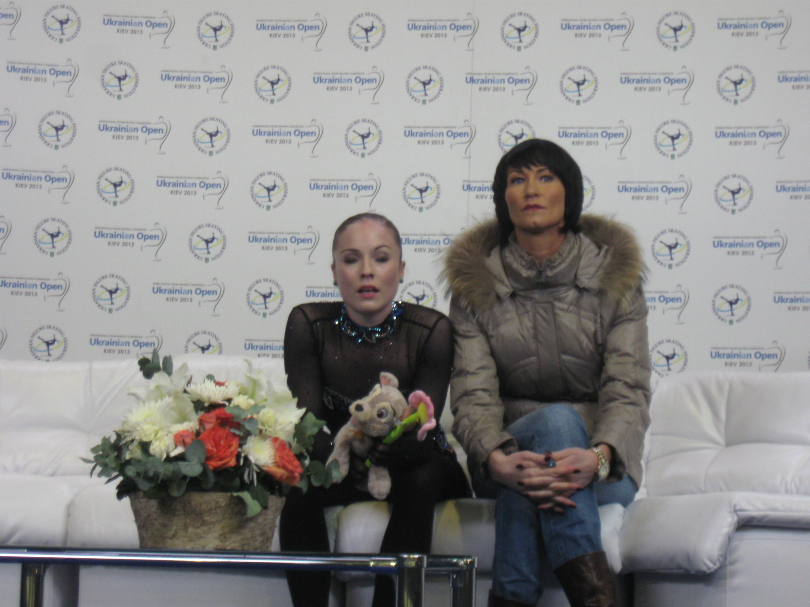 Fleur Maxwell at Kiev Open 2013